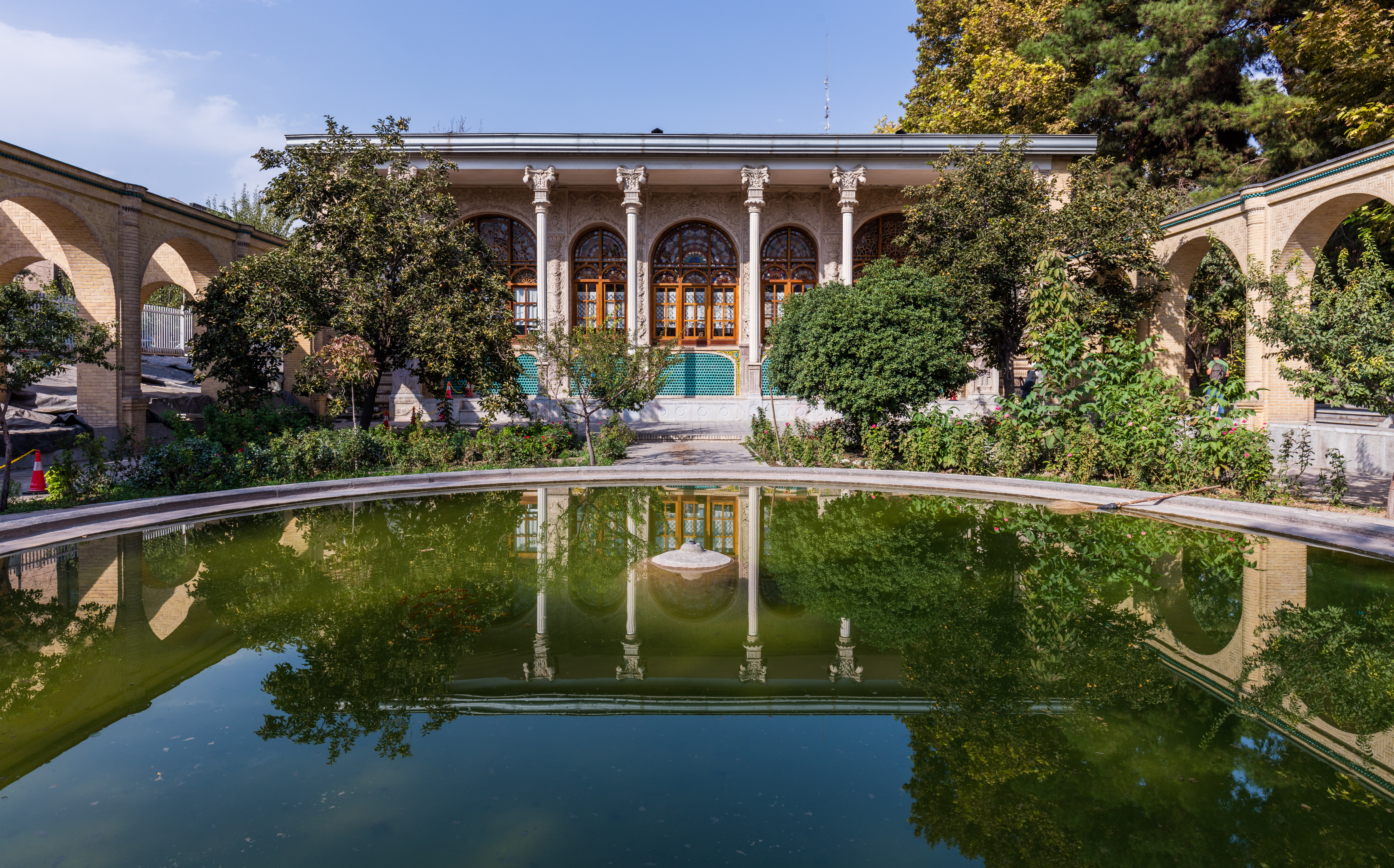 View of of one of the 5 buildings in the Masoudieh Mansion, Tehran, Iran. The mansion dates from 1878 and is named after the son of Persia's king Naser Al-Din Shah Masoud Mirza. The building houses the first Iranian library and museum back to the beginning of the 20th century.